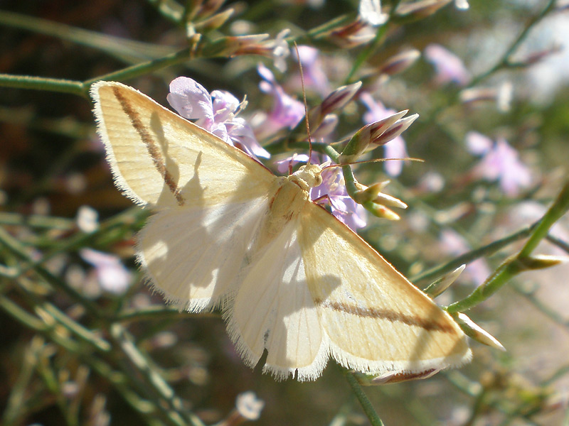 Tàrrega, Lleida, Catalonia. - July 7, 2007